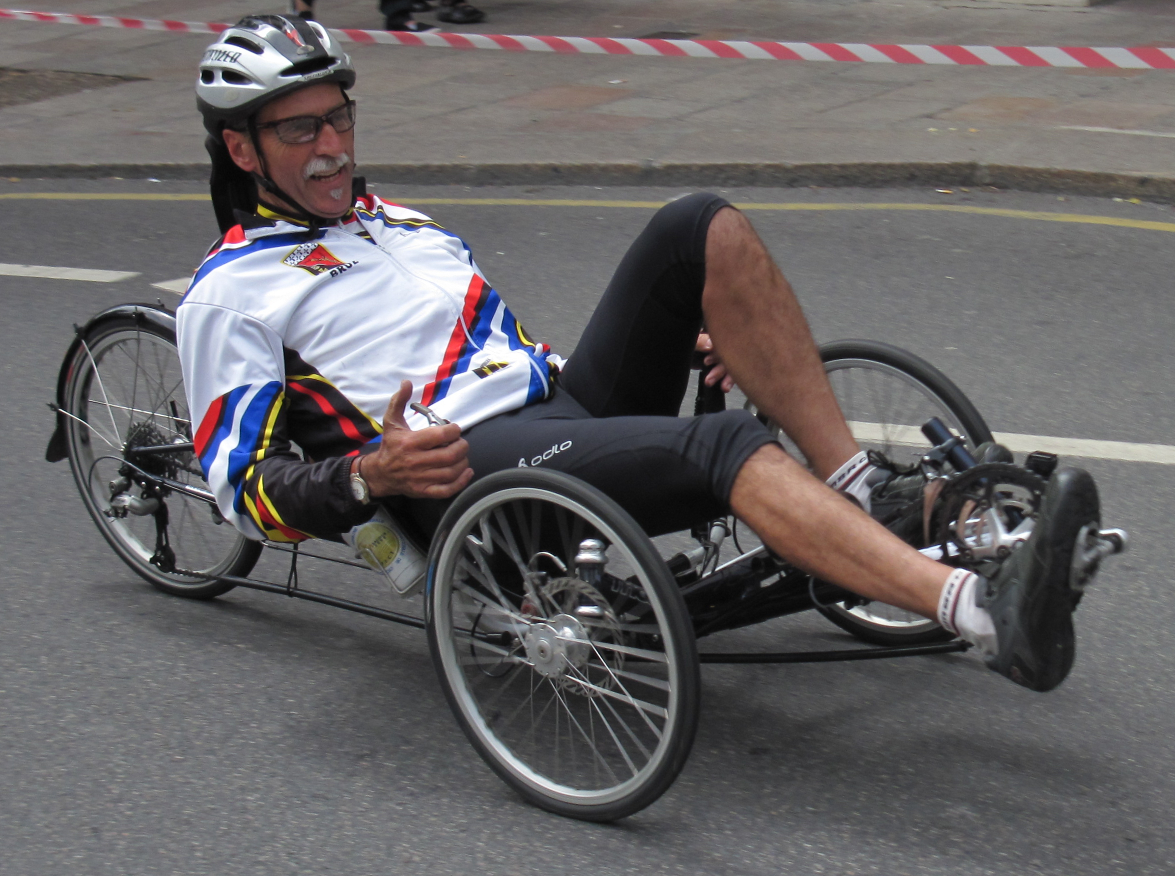 Jersey Town Criterium recumbent bicycle races, Saint Helier, Jersey - World Human Powered Vehicle Association 2010 World Championship